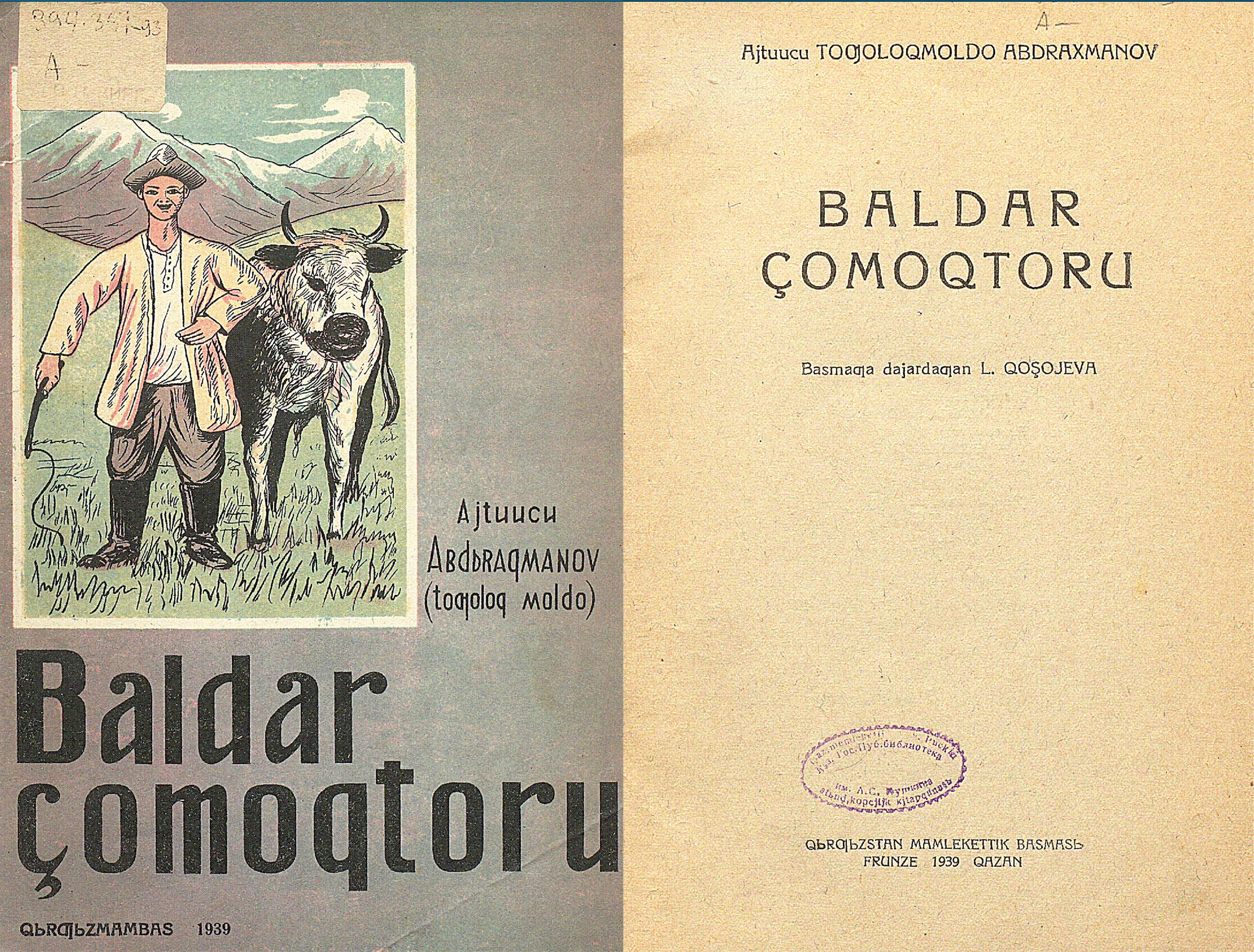 The frontispiece of of kid's fairies book in kyrgyz language by latin alphabet used in 1930's in Soviet Kyrgyzstan